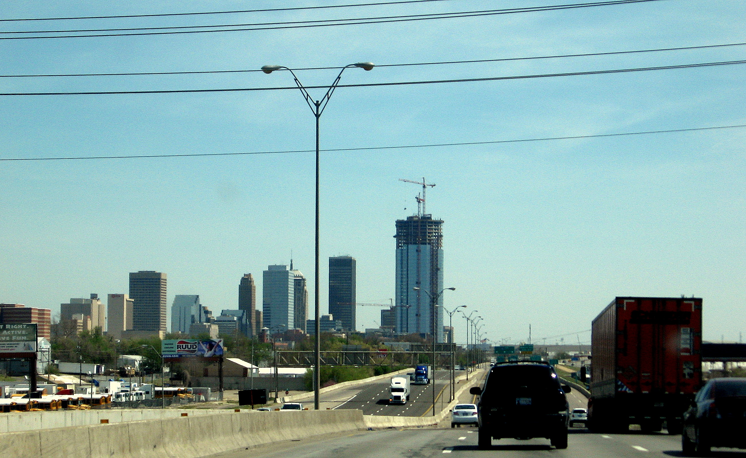 Downtown Oklahoma City, looking east from Interstate 40.